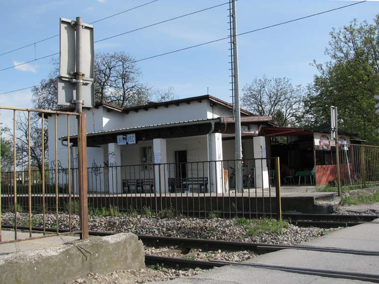 Brdovec Train Station